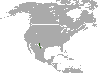 Robust Cottontail (Sylvilagus robustus) range